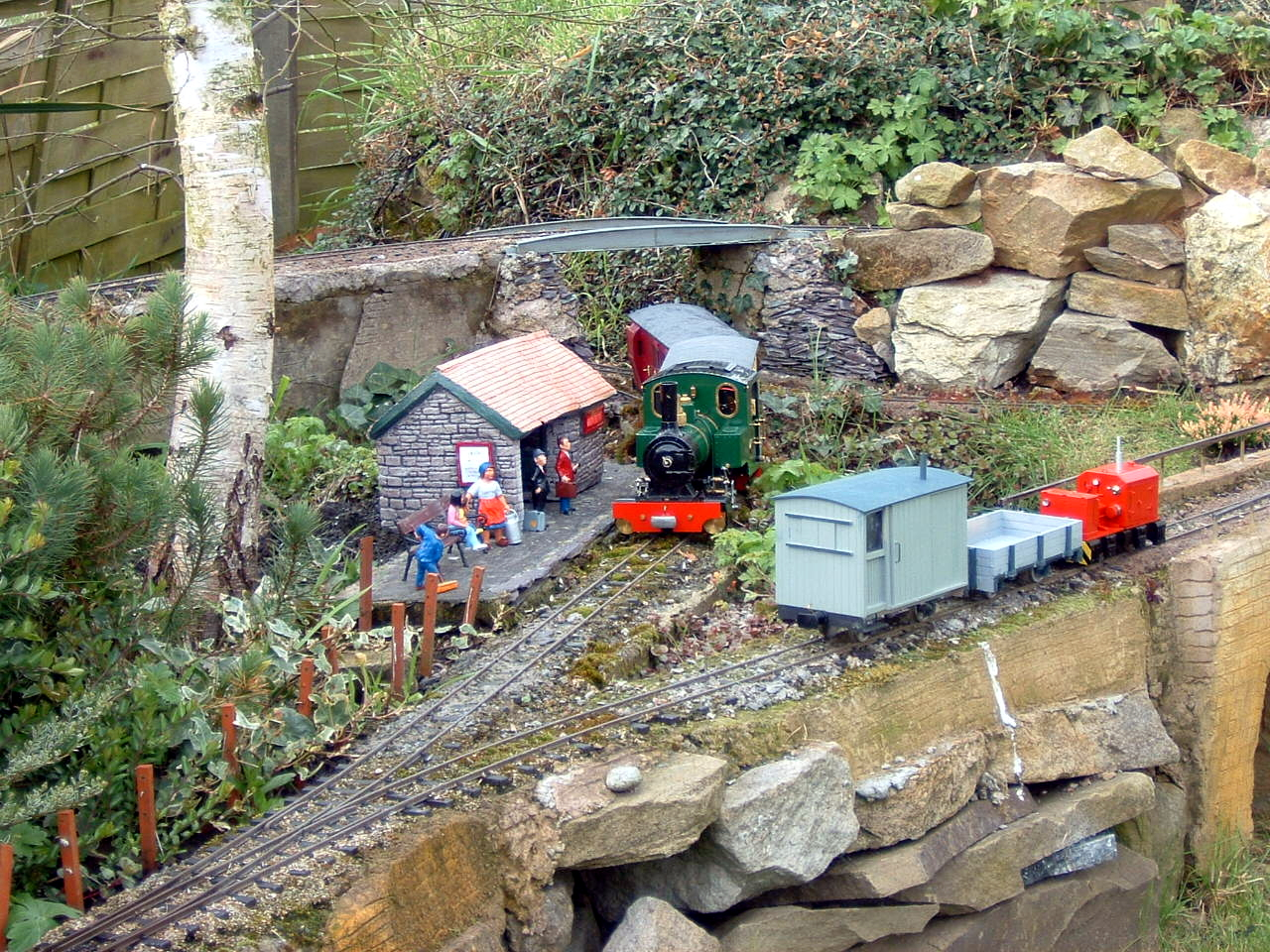 Scene on a typical 32 mm gauge UK garden railway, based roughly on Welsh narrow gauge practice.